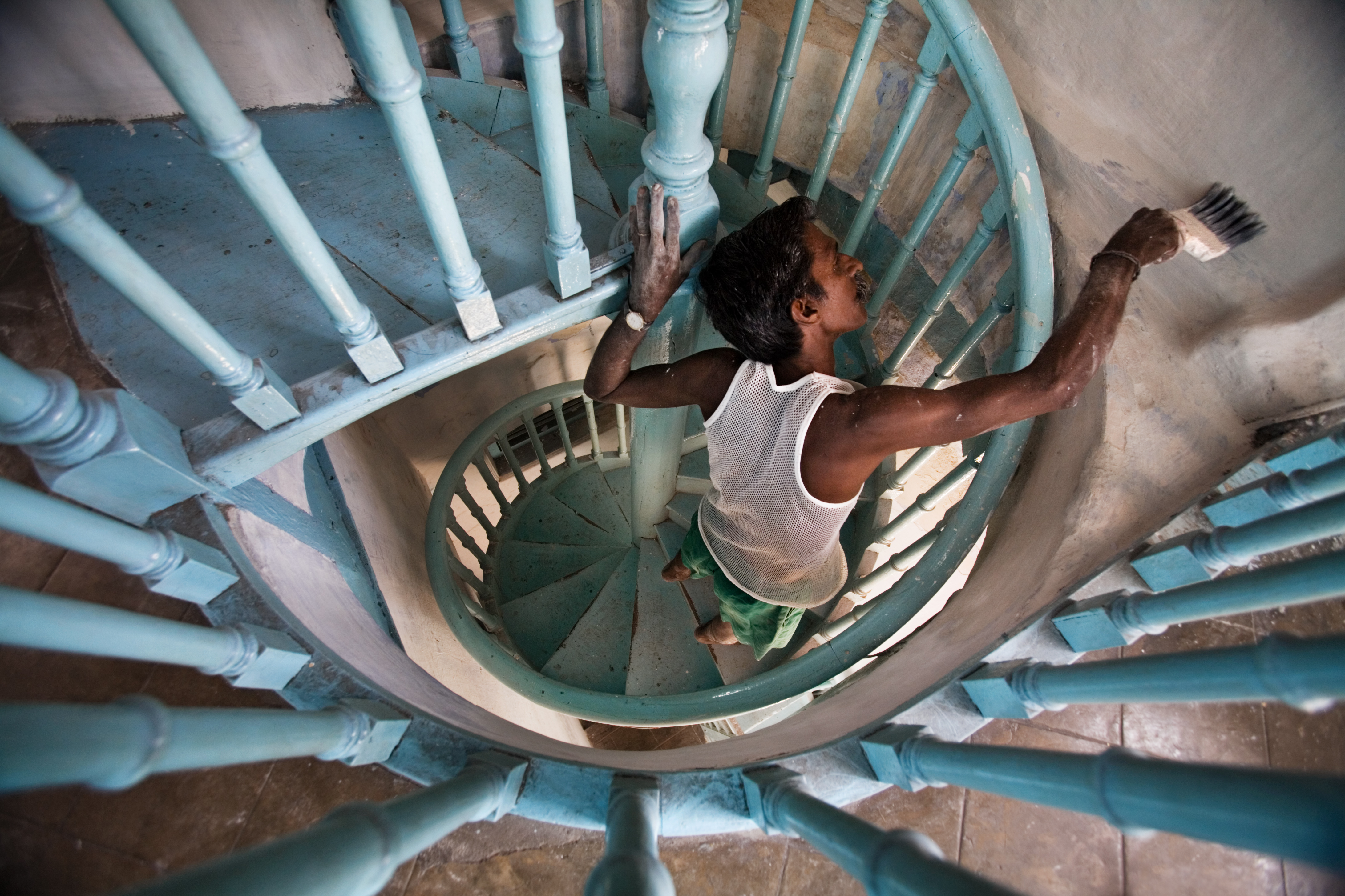 A man painting a staircase in India